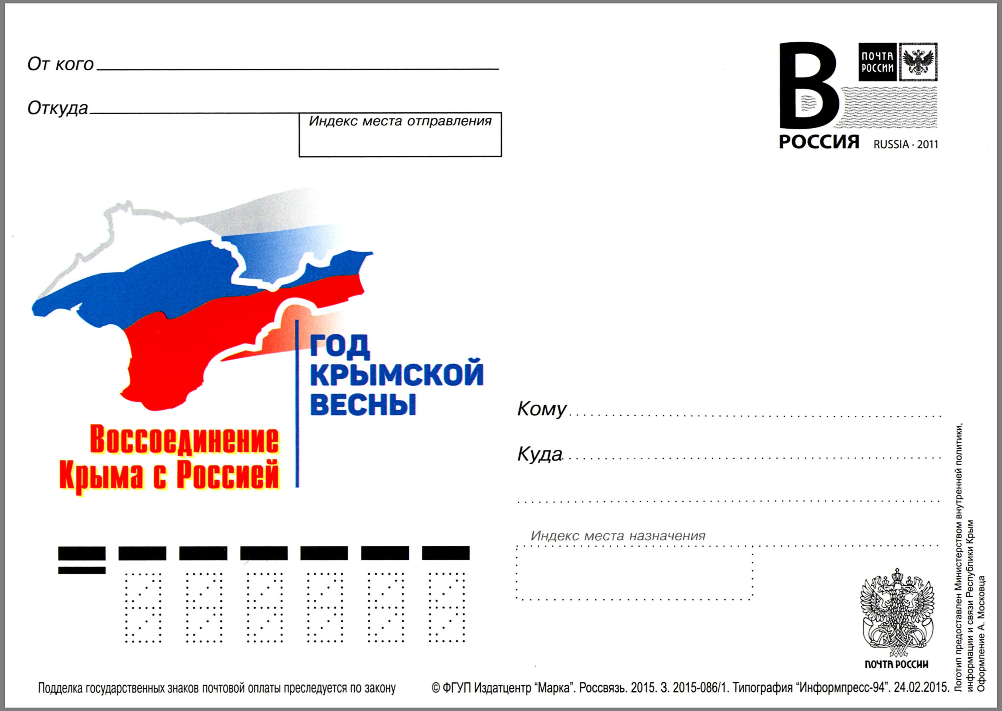 The reunion of Crimea with Russia. The year of the Crimean Spring[1]. The silhouette of Crimea on a map in colours of the flag of Russia. The postal stationery card with the imprinted definitive non-denominated stamp “Letter B”, Russia, 4 March 2015, PTC Marka Catalogue No 2015-086/1. Coated paper. Offset printing. Size of the postal card: 105×148 mm. Print run: 18,000.